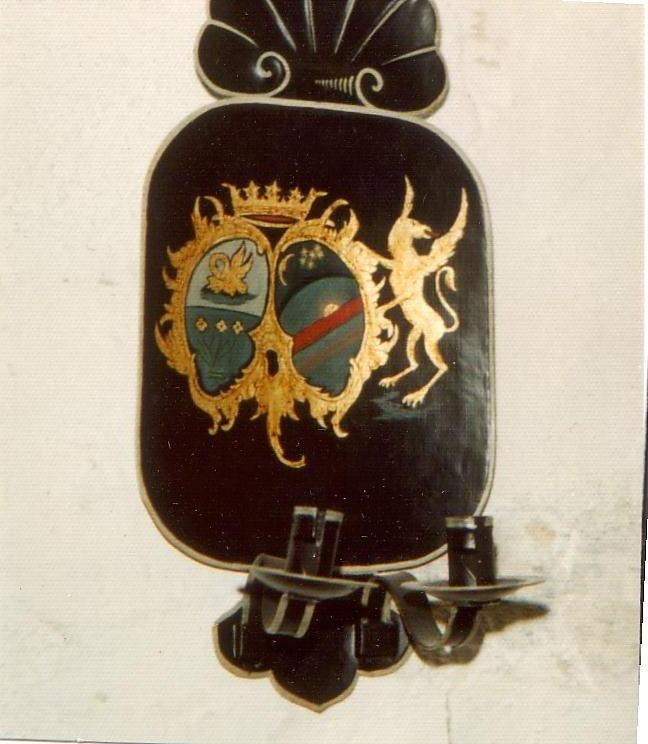 Cappelen & Darjes coat of arms 1785